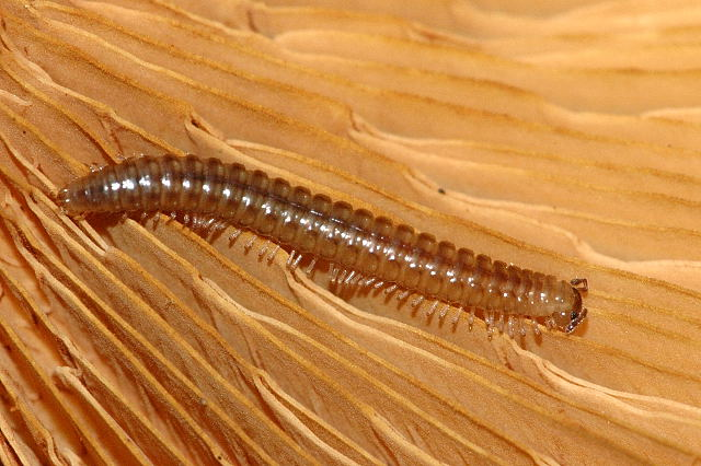 Picture taken in Commanster, Belgian High Ardennes . Species: Craspedosoma rawlinsi